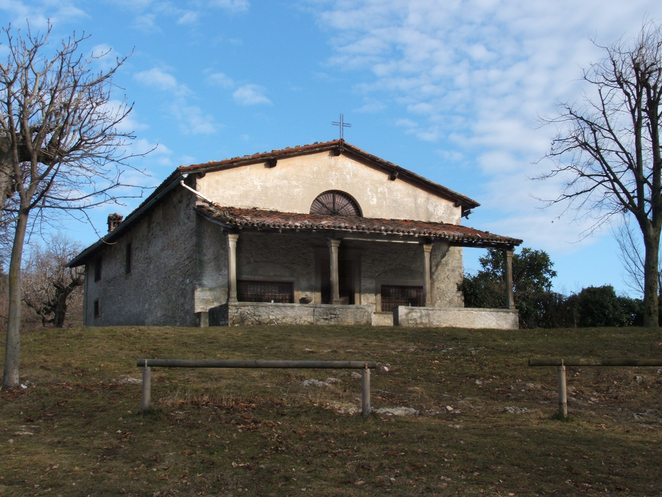 Ponteranica - Bergamo - Lombardy - Italy - St. mark's church on Maresana Hill 546 AMSL